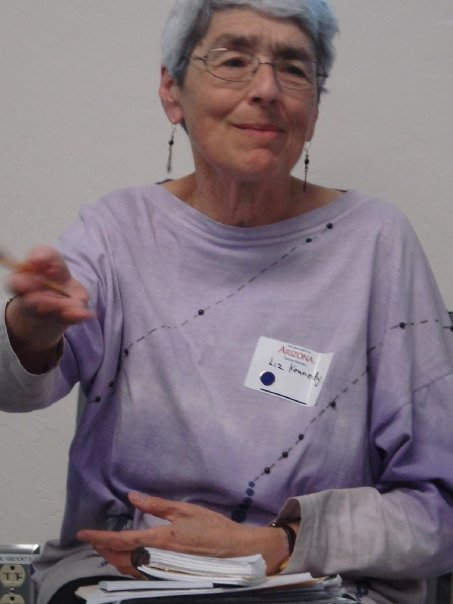 a picture of liz kennedy at a workshop at the university of arizona